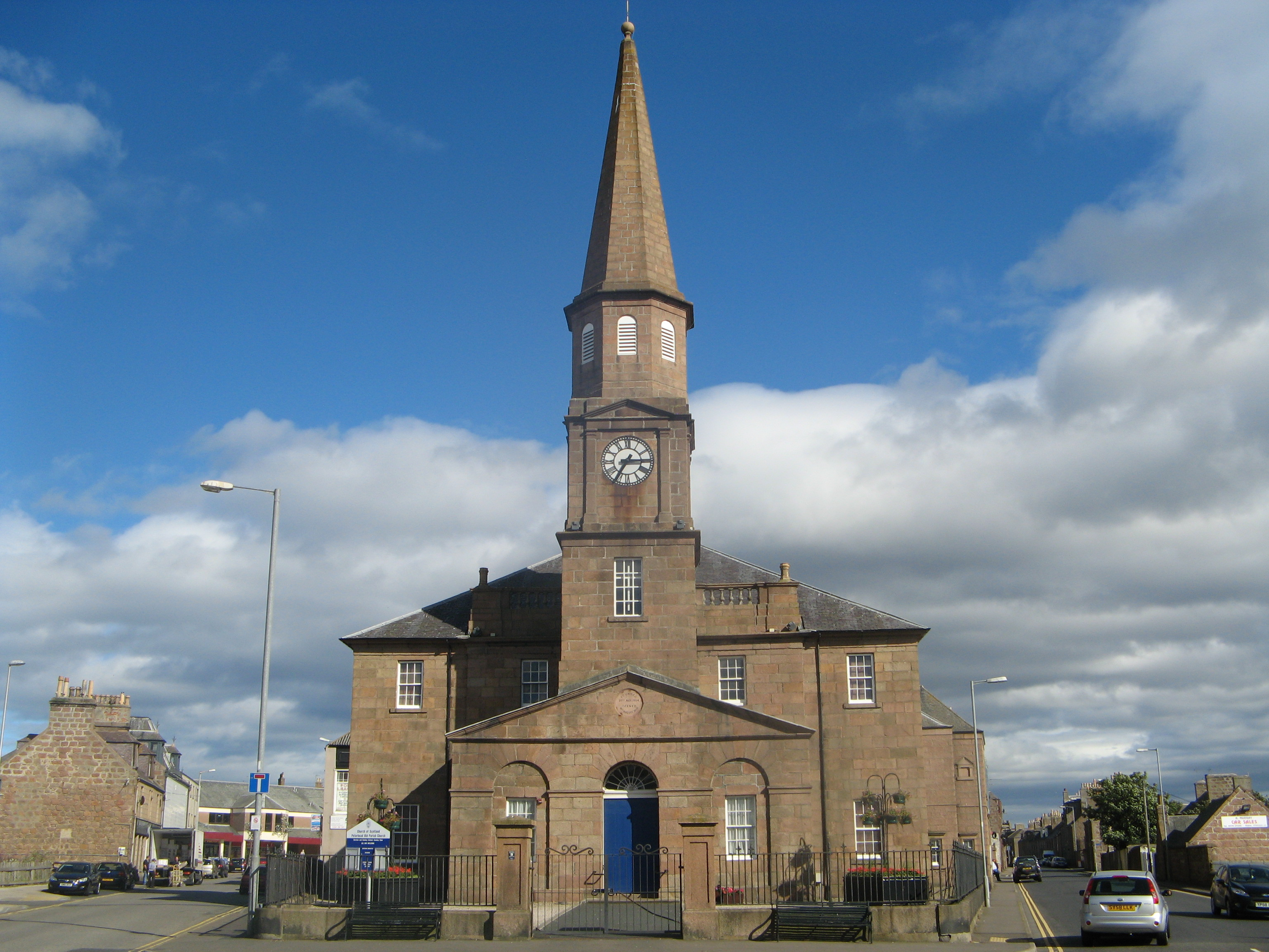 Peterhead Old Parish Church, category A listed building